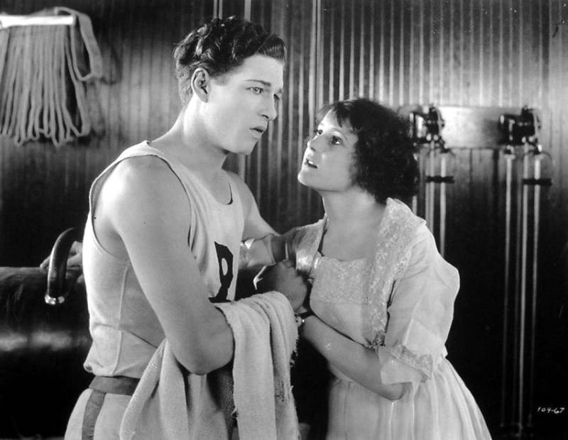 Cullen Landis and Clara Horton in the film It's a Great Life - cropped screenshot